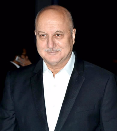 Anupam Kher grace Shirin Morani's wedding reception